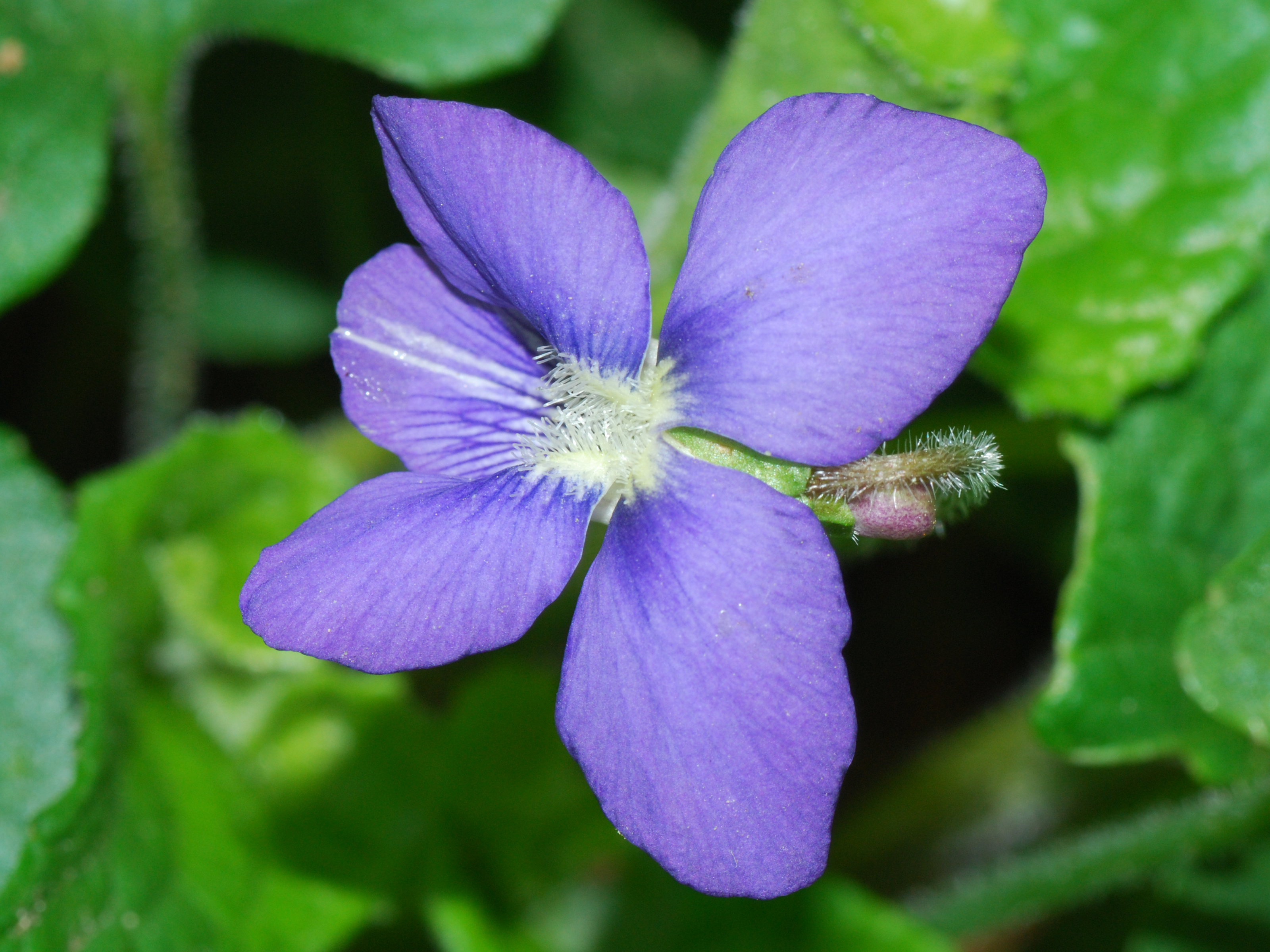 Viola nephrophylla - Northern Bog Violet - Kettle Moraine Oak Opening, Wisconsin State Natural Area #229, Jefferson County